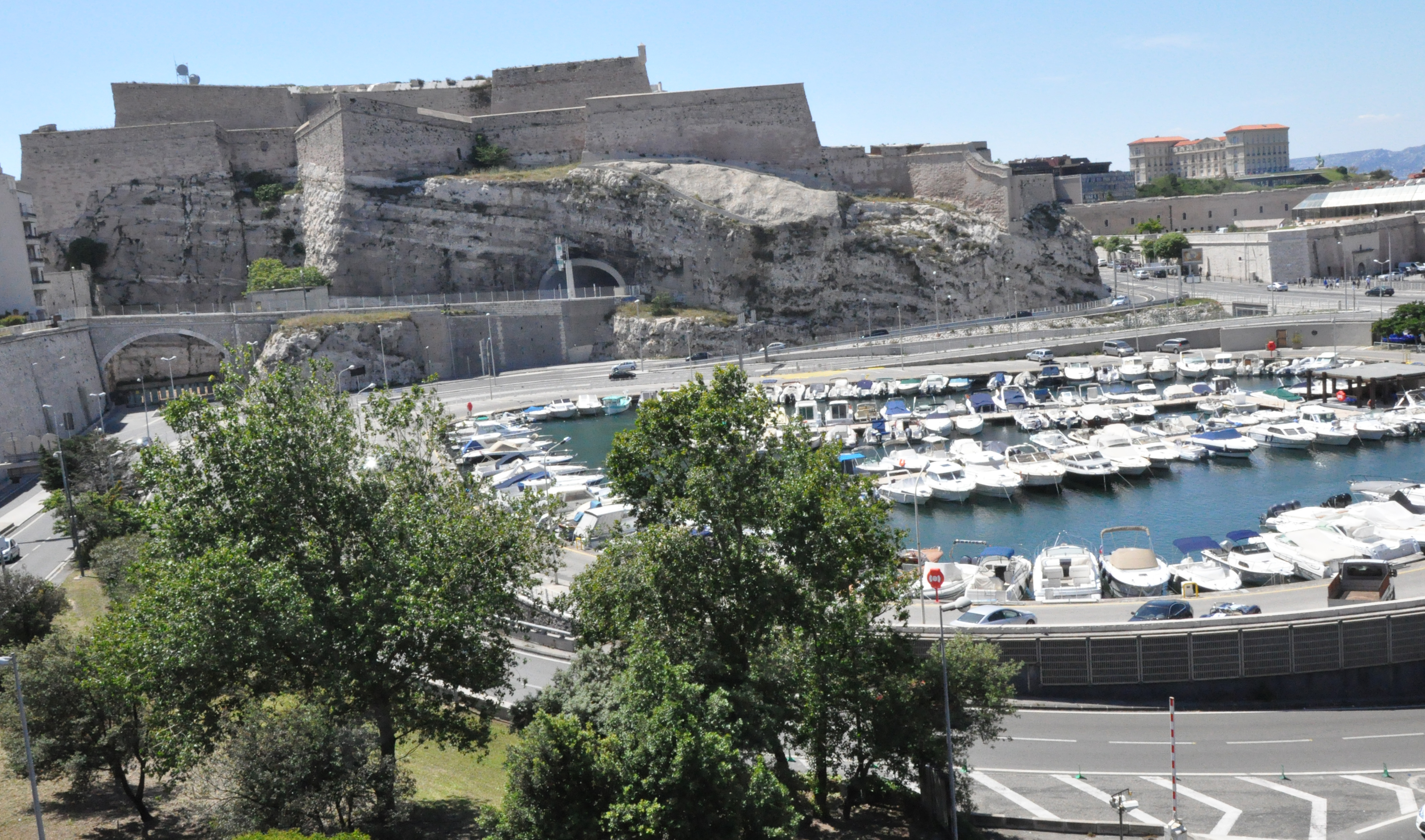 Marseille (France, Provence), Fort Saint-Nicolas and Palais du Pharo